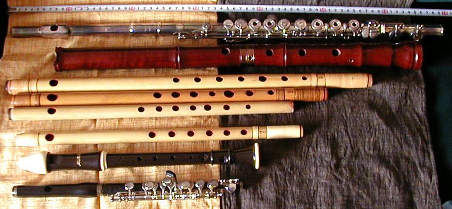 (ruler by cm, red indexes 10cm) Concert Flute in C, Boehm system (above) Shakuhachi in D, wooden student model, 7-hole 7-hole Uta-you Shinobue in G ("3-hon choshi") 7-hole Uta-you Shinobue in Bb ("6-hon choshi") 7-hole Uta-you Shinobue in C ("8-hon choshi") 6-hole Hayashi-you Shinobue ("6-hon choshi") Soprano Recorder in C Piccolo in D, Boehm system (below)